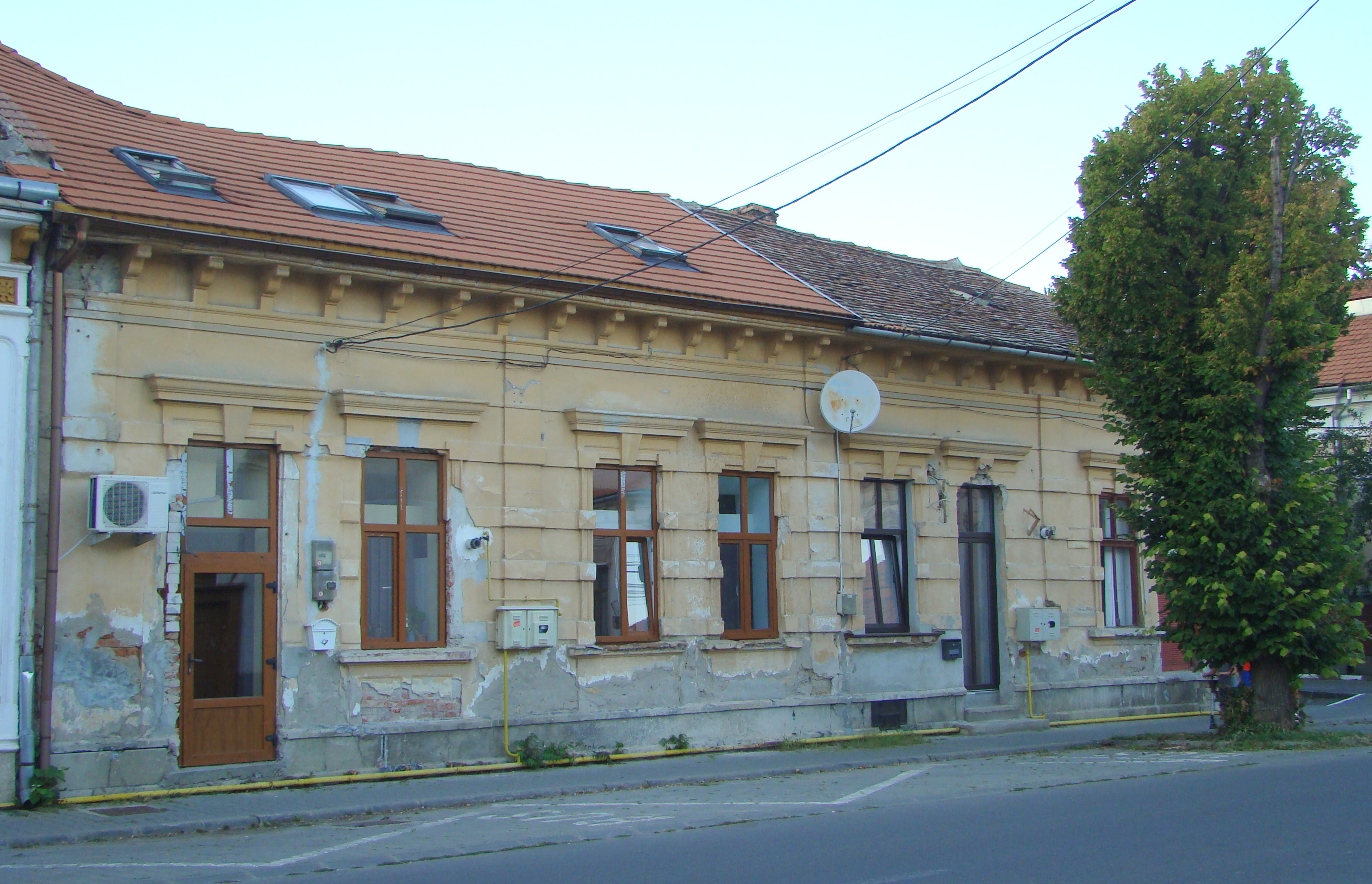 House, historic monument, Regina Maria street nr.7, Alba Iulia, Alba county, Romania